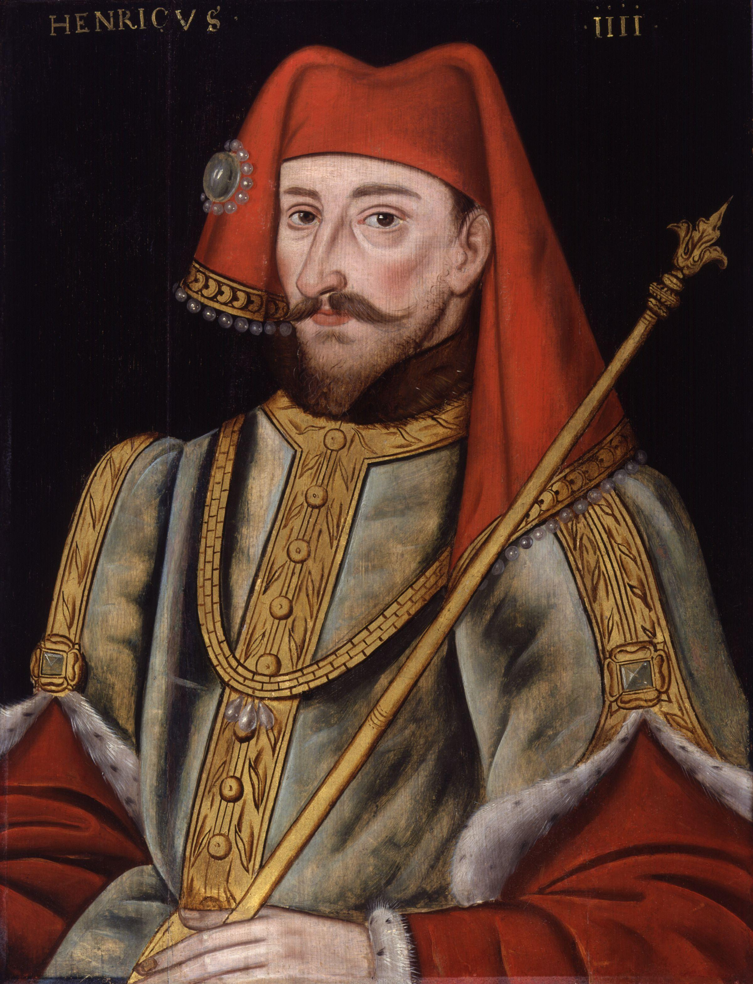 King Henry IV, by unknown artist. All images in this batch have an unknown author, but there is strong evidence it was first published before 1923 (based mainly on the NPG's estimated date of the work).